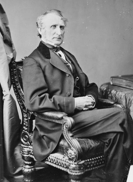 Representative John A. Bingham of Ohio, principal framer of the Fourteenth Amendment. Congressman John Bingham of Ohio was the principal framer of the Equal Protection Clause. Rep. John A. Bingham.